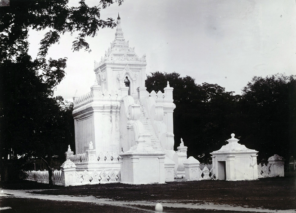 Photograph of the Tooth Relic Tower at Mandalay in Burma (Myanmar) from the Archaeological Survey of India Collections: Burma Circle, 1903-07. The photograph was taken in 1903 under the direction of Taw Sein Ko, the Superintendent of the Archaeological Survey of Burma at the time. Mandalay was founded in 1857 and became Burma’s last royal capital. At its heart was a square citadel containing the Nandaw or Royal Palace. The Tooth Relic Tower stood inside the palace grounds, on the south side of the road next to the East Gate, the main entrance. The building consists of a plinth crowned by a square relic chamber containing a statue of the Buddha, with a tiered roof. This view shows the flight of stairs on the west side. Buddhist relics are enshrined in pagodas throughout Burma and were highly sought after by Burmese monarchs. However the tower at Mandalay only ever contained the statue. In his ‘Guide to the Mandalay Palace’ (Rangoon, 1925), a later Superintendent of the Burma Archaeological Survey, Charles Duroiselle, commented that: “As a matter of fact, although the building is called the Tooth Relic Tower, there never was any tooth-relic enshrined in it, either in Mindon’s or in Thibaw’s time. The tower was built simply because it was the tradition to have such a tower at the royal city, a tradition which the Burmese push back only to the time of King Hanthawaddy Sinbyushin in the sixteenth century.”